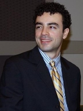 Dr. Miguel O. Román